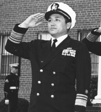 Vice Admiral Hahm Myong Soo, Republic of Korea Chief of Naval Operations